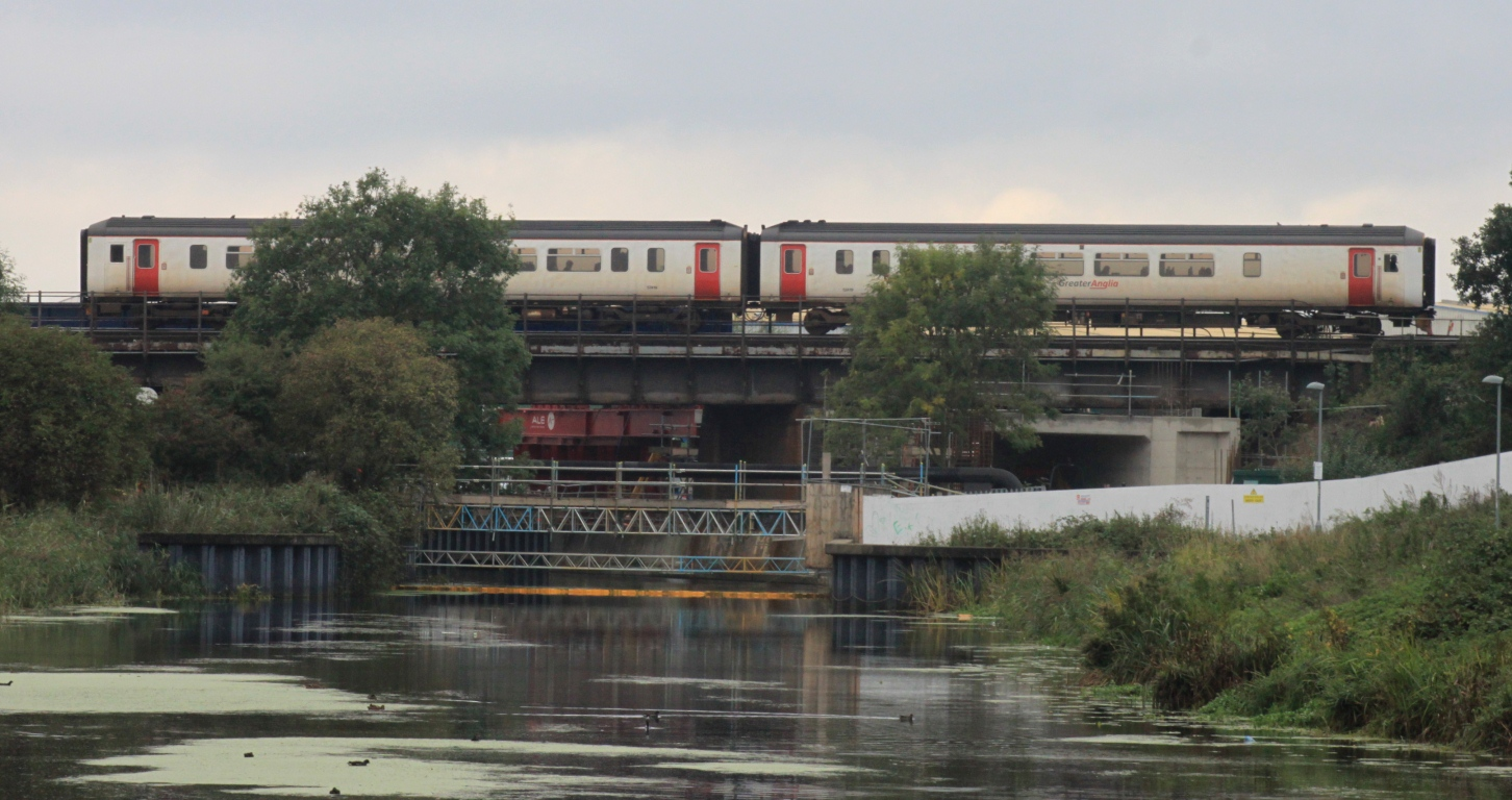 Great Anglia's 156419 crosses (left ot right) the River Gipping in Ipswich with an East Suffolk Line service to Lowestoft. Work is underway to build a new bridge here at Boss Hall to accommodate the junction for the new 'Bacon Factory Curve' which will link this line with the northbound main line.